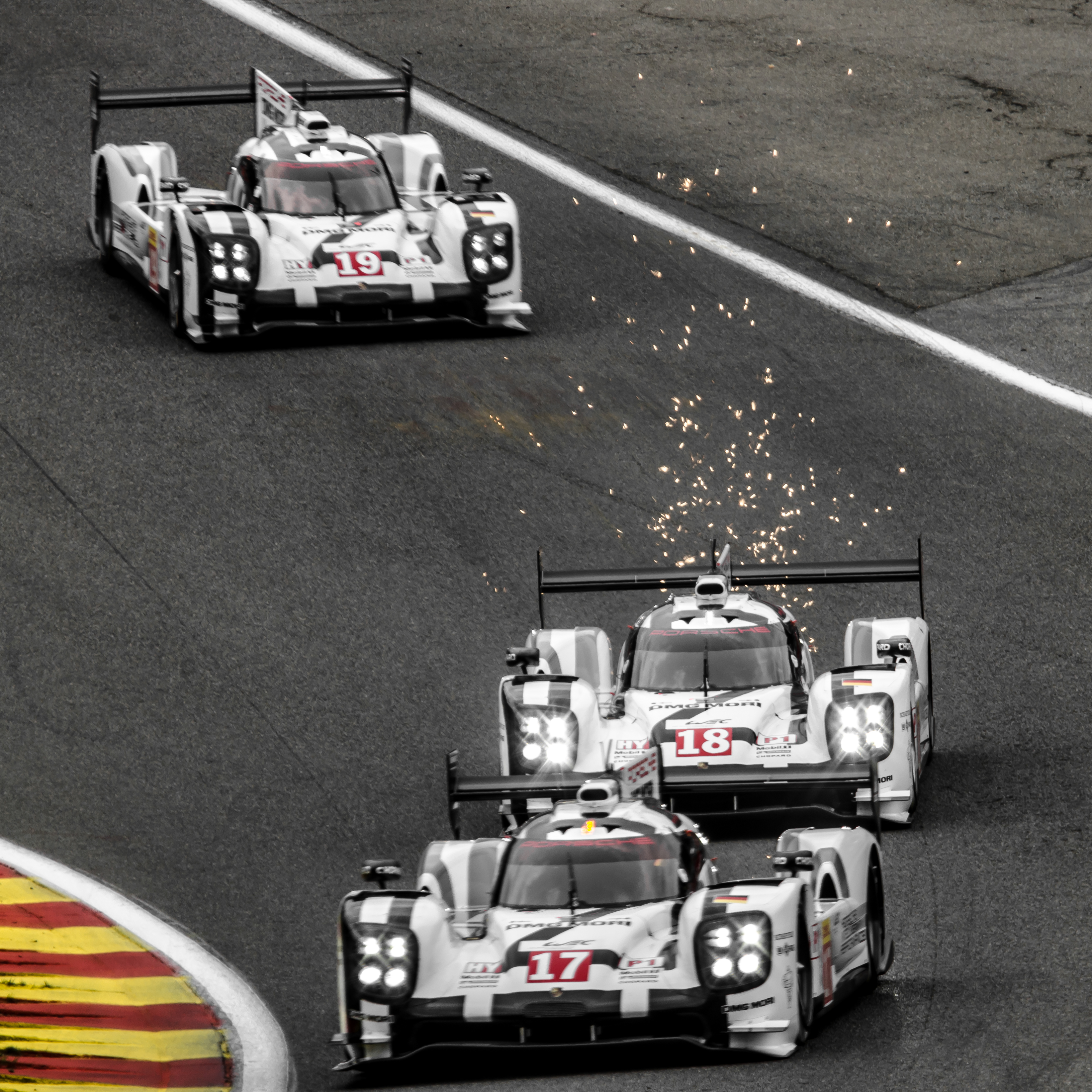 The 3 Porsche 919 had the first 3 places at the start of the 6hours of Spa. So I was quite lucky I could take this shot of them all together.